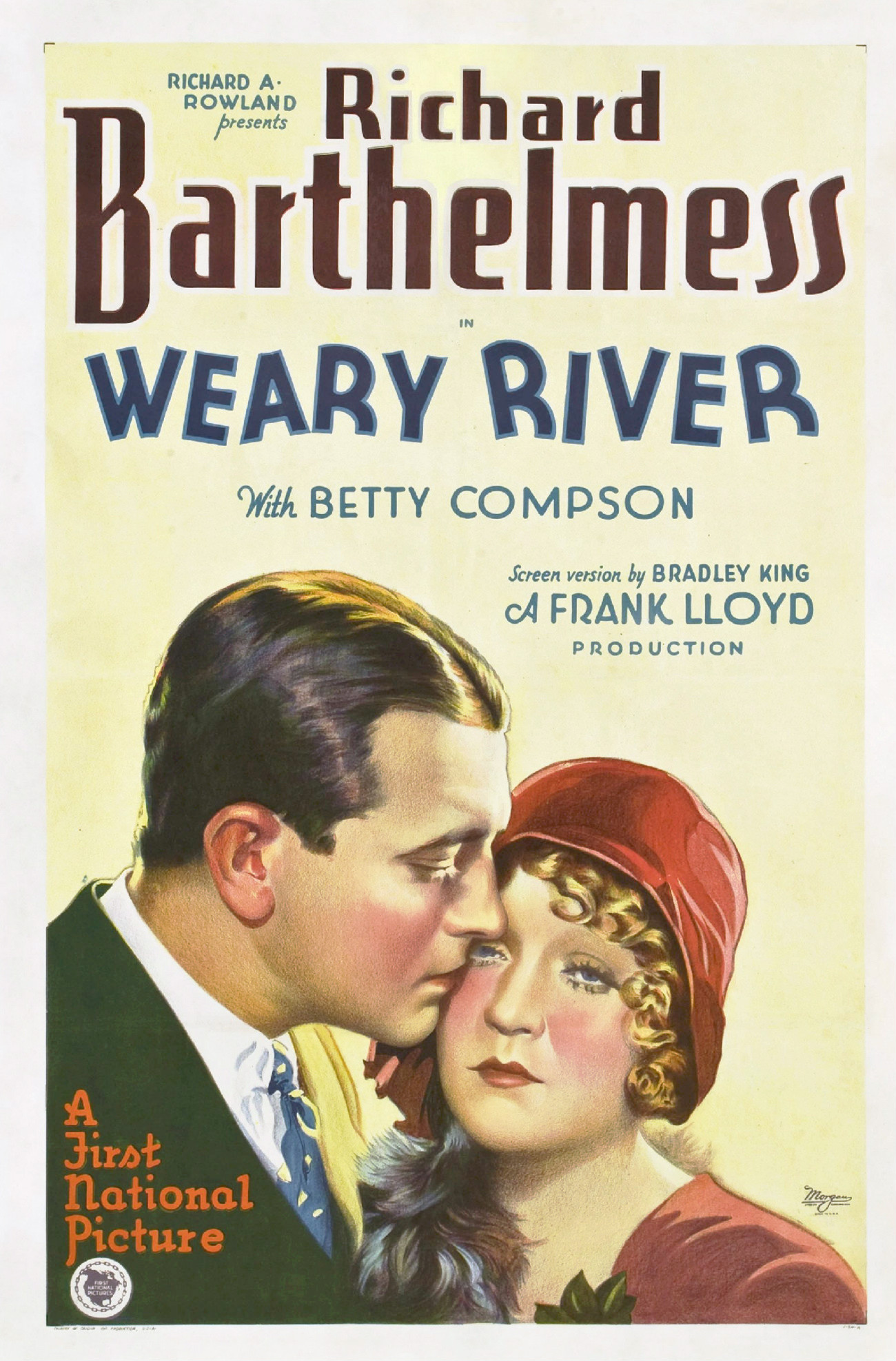 Movie poster for the American romantic drama film Weary River 1929. There are no copyright marks. At bottom left is Country of origin & production USA. At bottom right is 1-SH-A.